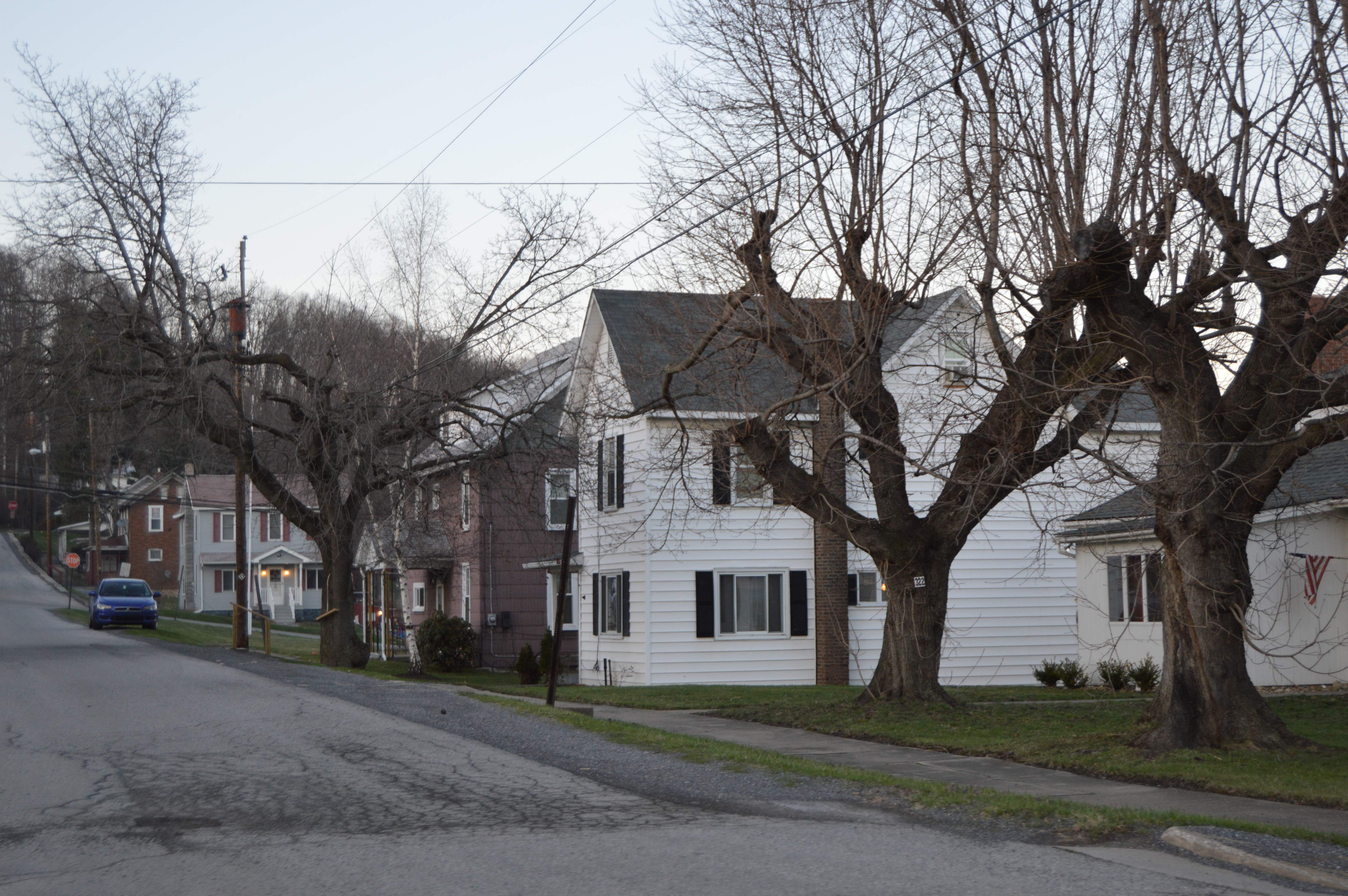 Houses along Hopkins Street, seen looking north from Rose Street, in Irvona, Pennsylvania, United States.